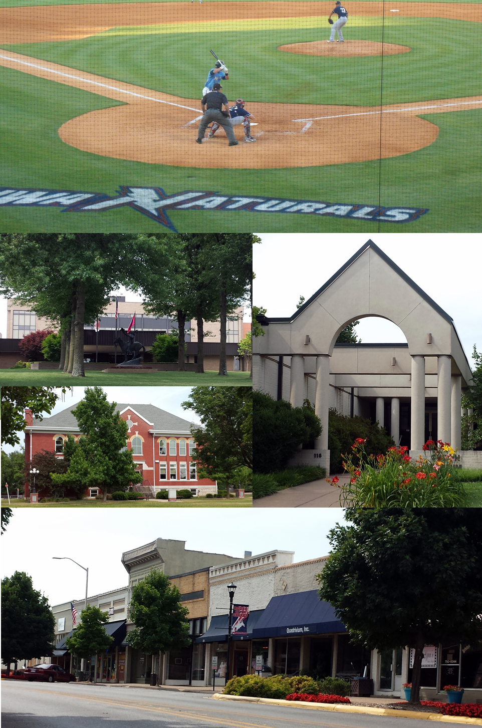 File:Brett Eibner NWA Naturals.JPG File:Tyson World Headquarters.jpg File:Old Springdale High School.jpg File:E Emma Ave.jpg File:Shiloh Museum.jpg